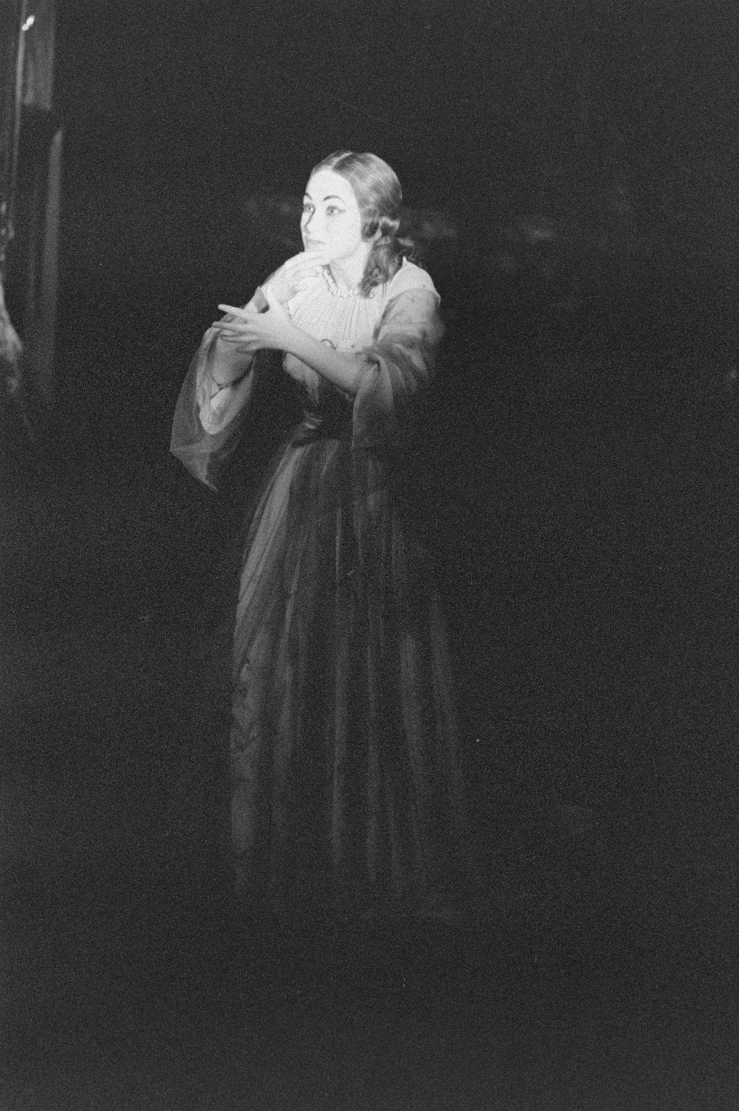 Pisarek, Abraham: Scenes from the opera "Hoffmanns Erzählungen" by Jacques Offenbach in the staging of Walter Felsenstein (musical direction: Václav Neumann, stage design and costumes: R. Heinrich). Komische Oper Berlin, 25.01.1958, 1958.01.25 Series: Hoffmann's stories Description: With Hanns Nocker in the title role, Irmgard Arnold as Muse and Niklaus, Melitta Muszely as Stella, Olympia, Antonia and Giulietta, WW Dicks as Spalanzani and Schlemihl among others Premiere: 1958.01.25 PERSONS AND CORPORATIONS: Connection: Heinrich, Rudolf , costume designer & stage designer Composition: Offenbach, Jacques , Composer Director: Felsenstein, Walter , Director Context: Neumann, Václav , Conductor Presentation: Nocker, Hanns , Singer Presentation: Arnold, Irmgard , Singer Presentation: Muszely, Melitta , Singer Presentation: Dicks, Wilhelm Walter , Singer Presentation: Komische Oper Berlin LOCATION: Berlin Google Maps Localization: City: Berlin, Province: Berlin, Country: Germany KEYWORDS / CLASSIFICATION: Scenery, Opera Scenes, Portfolio Pisarek Theater History Additional information: Roles and cast partially noted on the positives Add to Favorites PERMALINK: Author of the metadata: German Photo Library